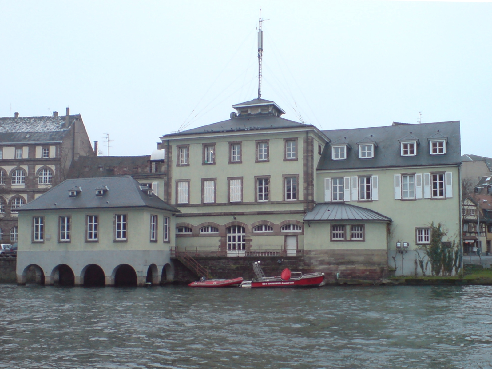 A boat of the local firefighting force in Strasbourg, France.